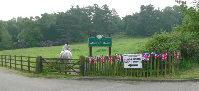 Entrance to Ulverscroft Manor